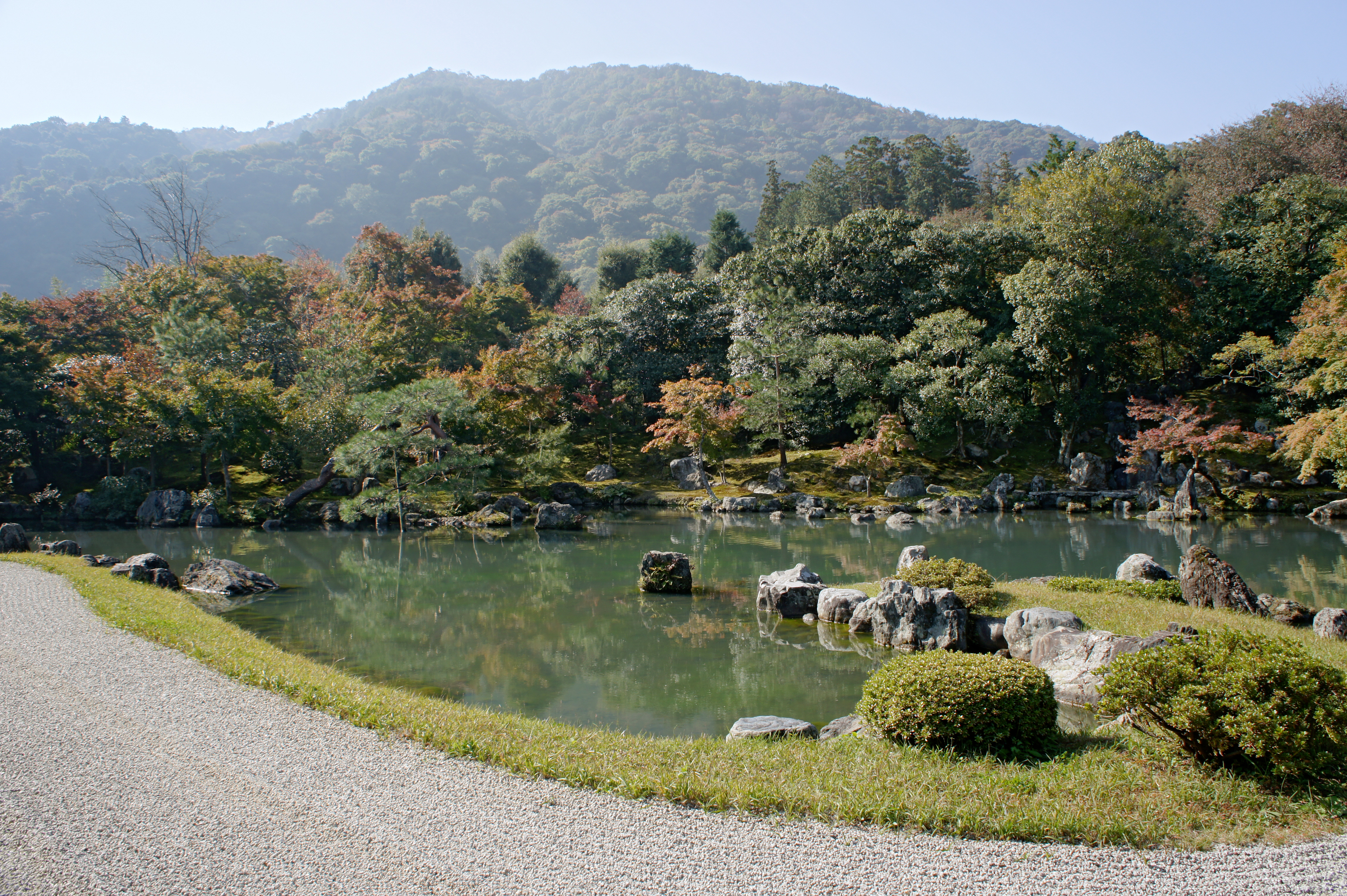 Tenryū-ji in Ukyō-ku, Kyoto, Kyoto prefecture, Japan